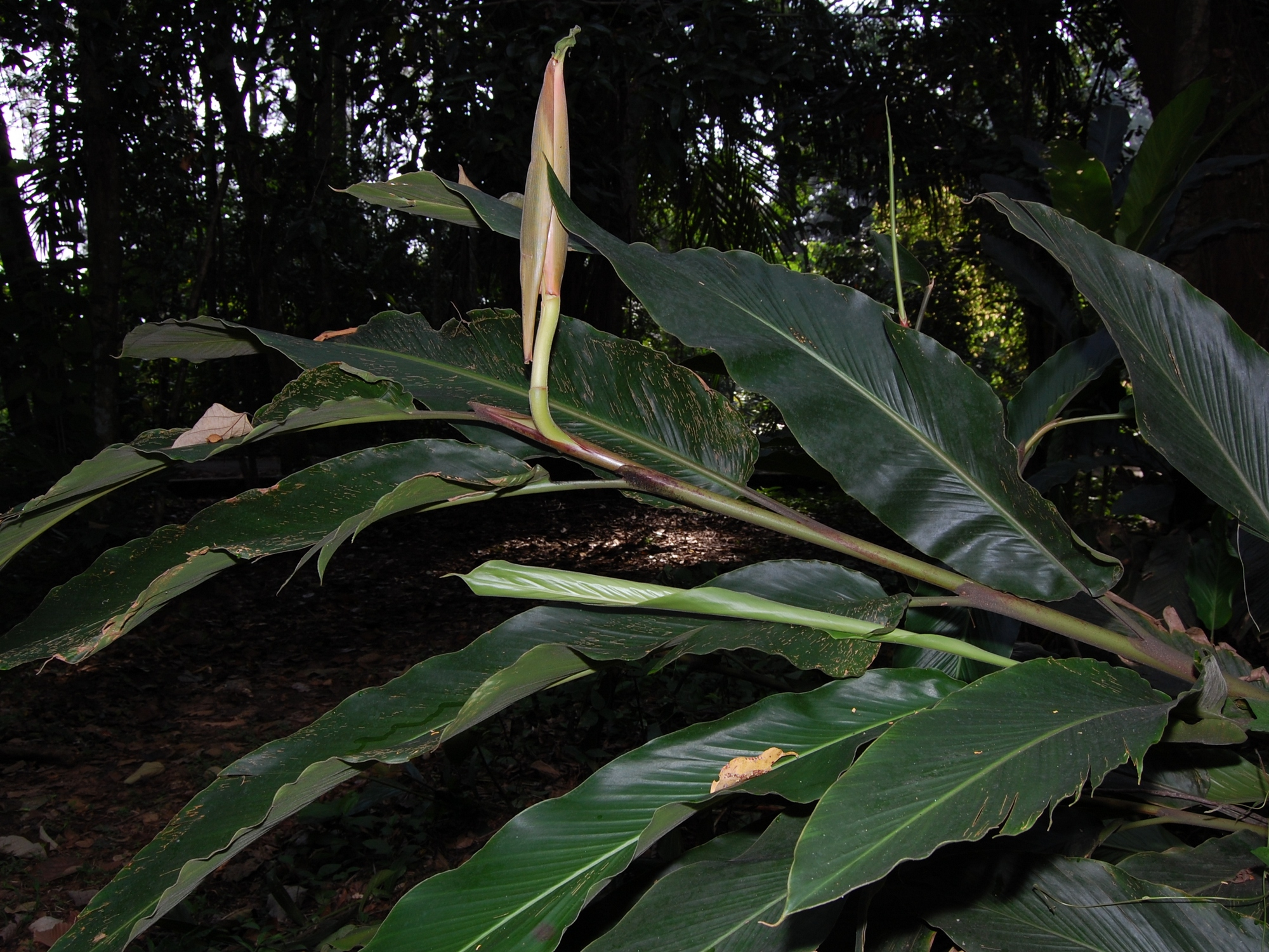 Alpinia (Catimbium) malaccensis; flowering raceme. From Bogor, West Java, Indonesia.